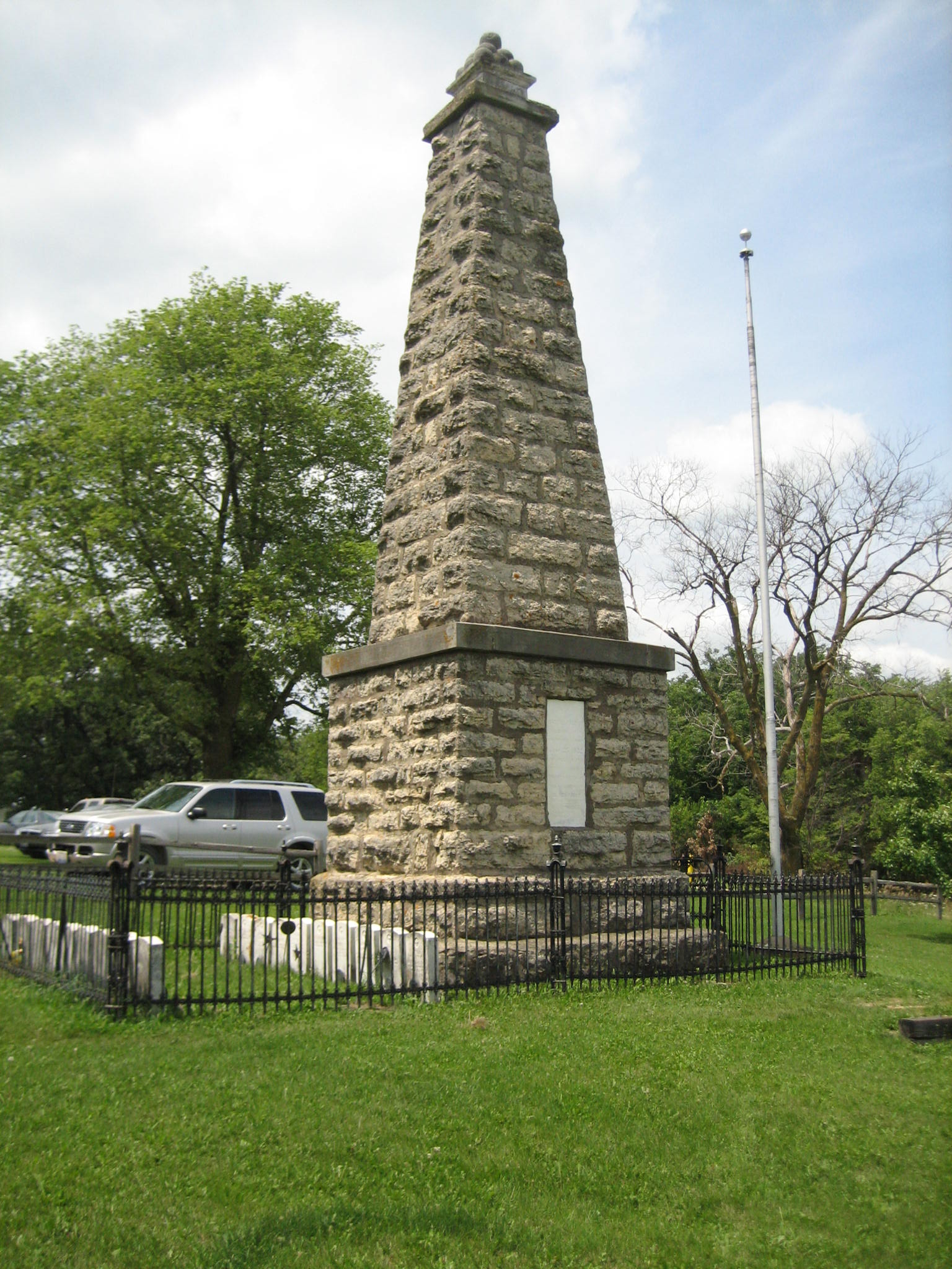 Kellogg's Grove, near Kent, Illinois, USA. Site of the Battle of Kellogg's Grove during the Black Hawk War. Site includes 56 acres and a monument and graves of those in the militia that died. U.S. National Register of Historic Places.